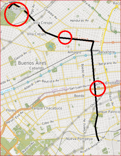 Semána Trágica de 1919 en Buenos Aires. 9 de enero de 1919.Referencias:* En negro, ruta del cortejo fúnebre desde el local sindical en Nueva Pompeya hasta el cementerio de la Chacarita.* Los círculos rojos marcan los lugares en que hubo mayor cantidad de muertos. De abajo a arriba: a) talleres Vasena de Cochabamba; b) Iglesia de Jesús Sacramentado en Yatay y Corrientes; c) dentro del cementerio.